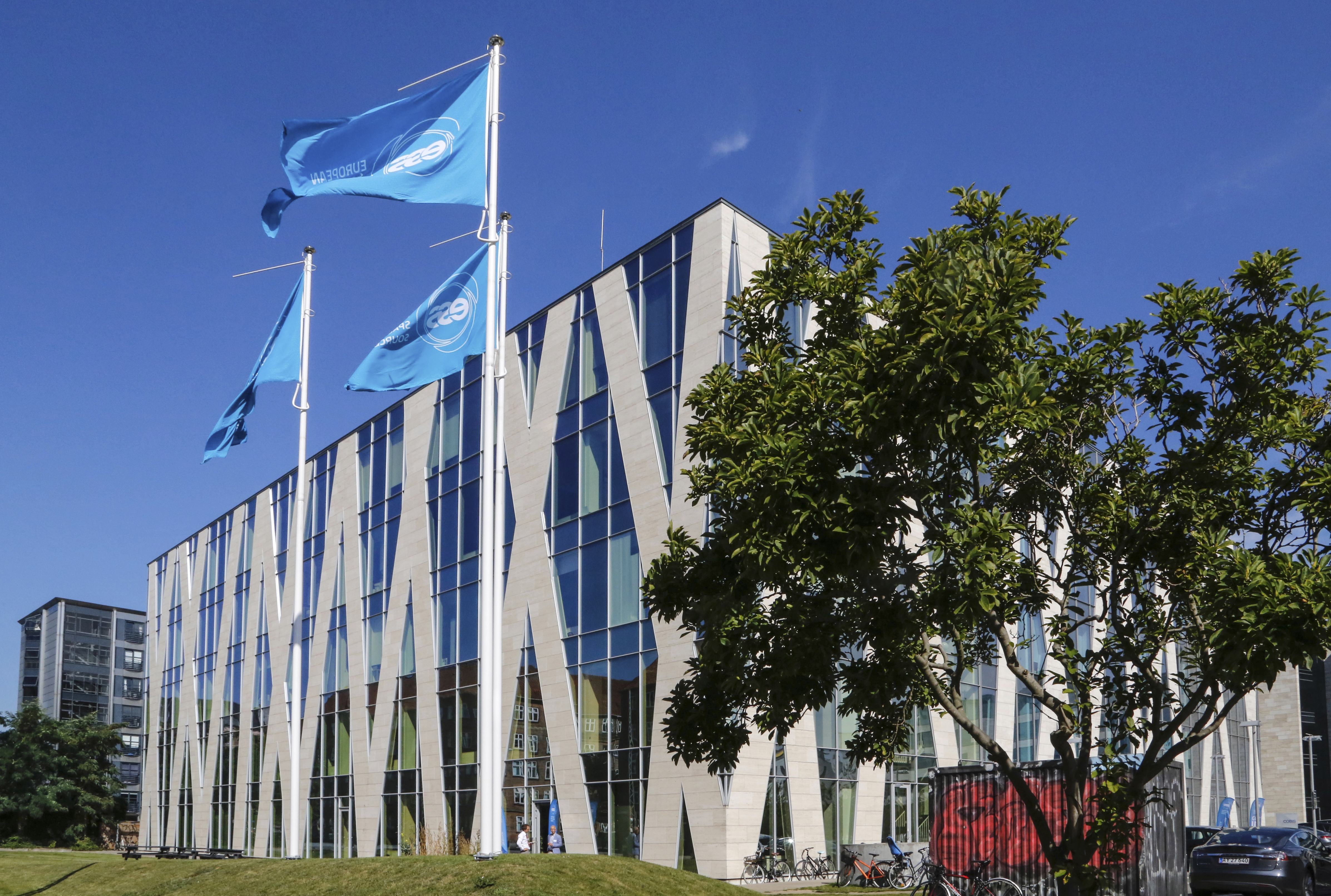 Data Management and Processing Centre for European Spallation Source in Copenhagen.